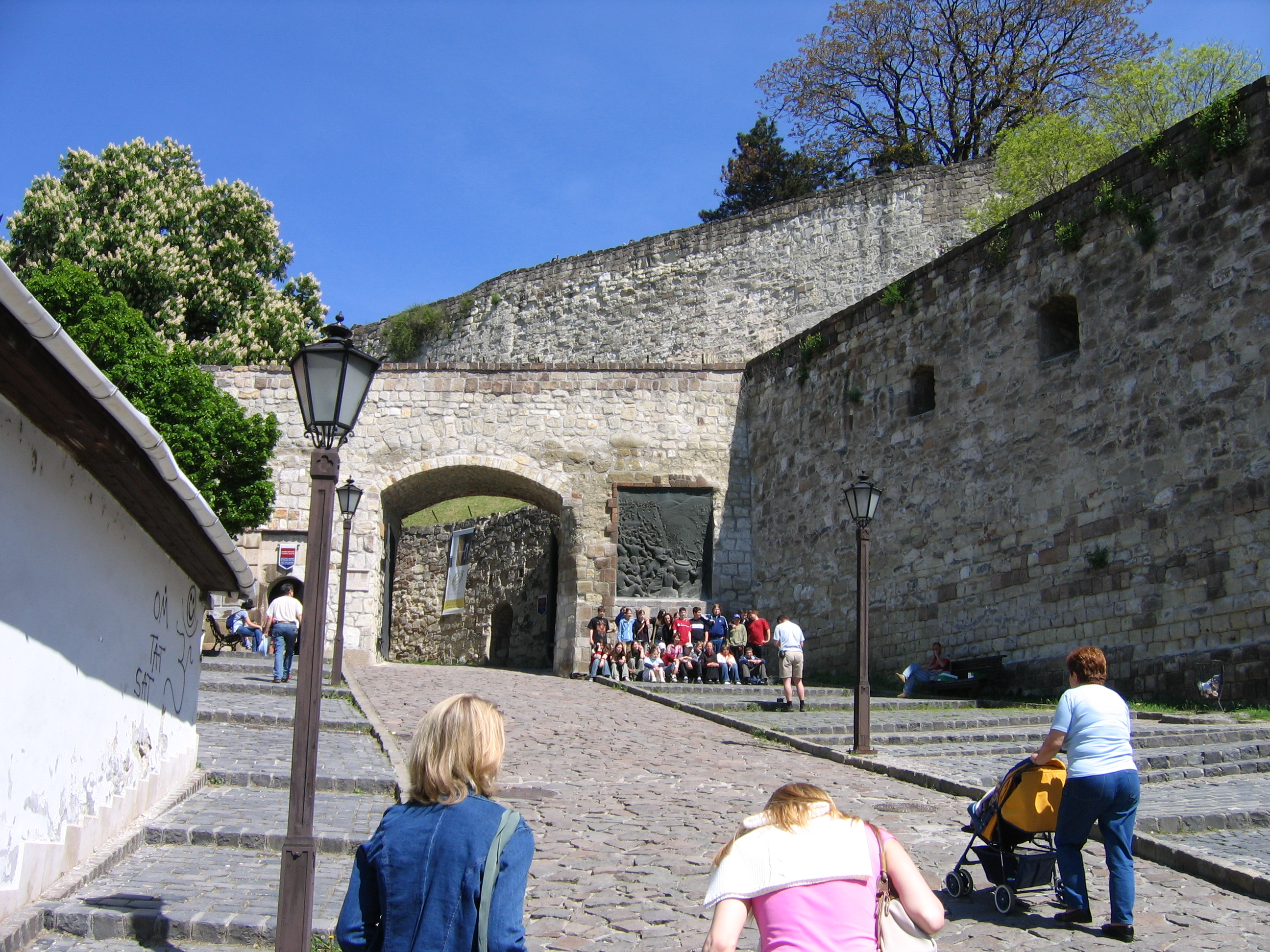 Castle of Eger, Hungary